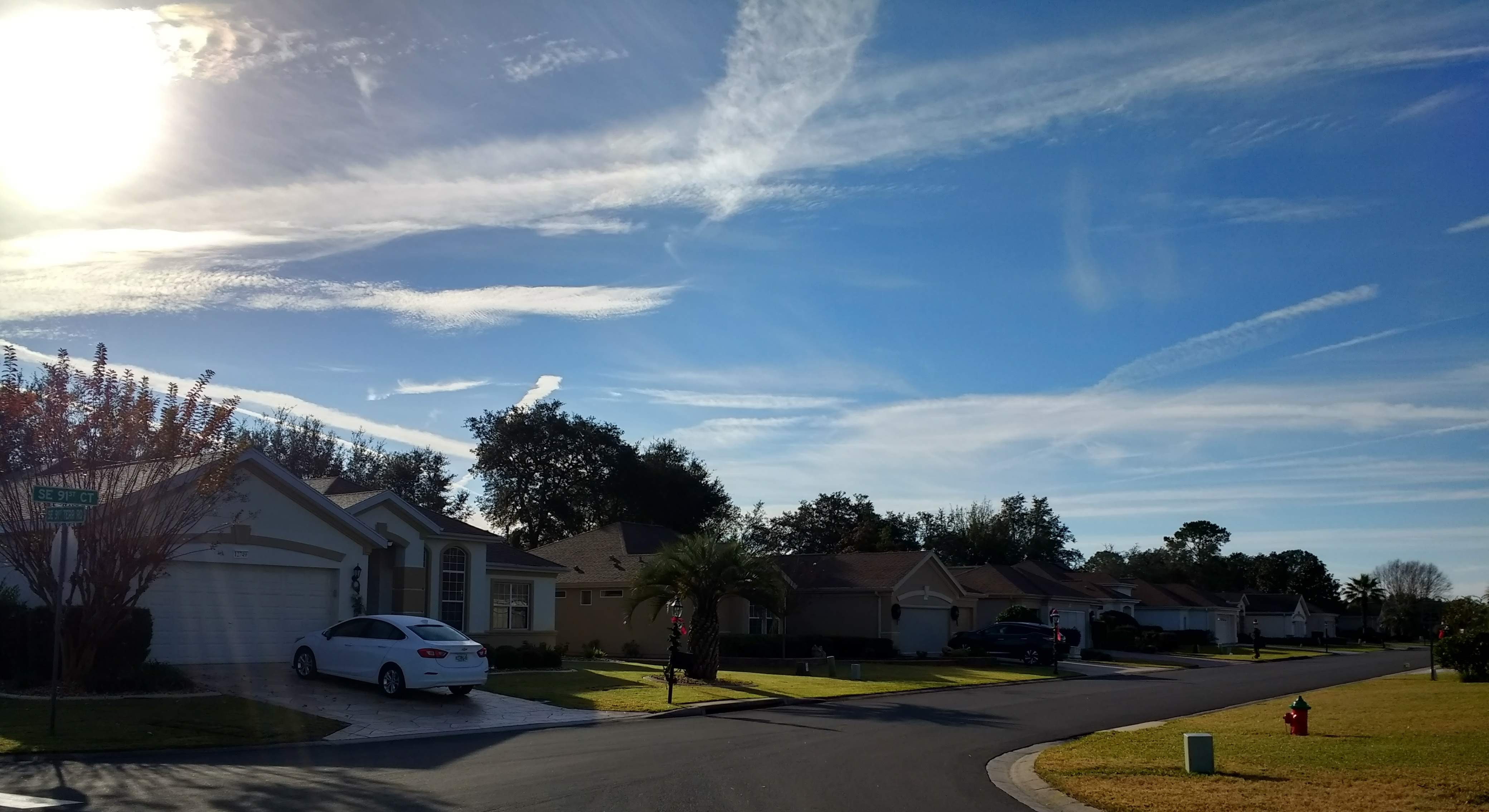 The Del Webb Spruce Creek Golf & Country Club community in Summerfield, Florida.